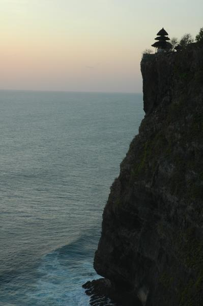 Sunset at Pura Uluwatu, Bali